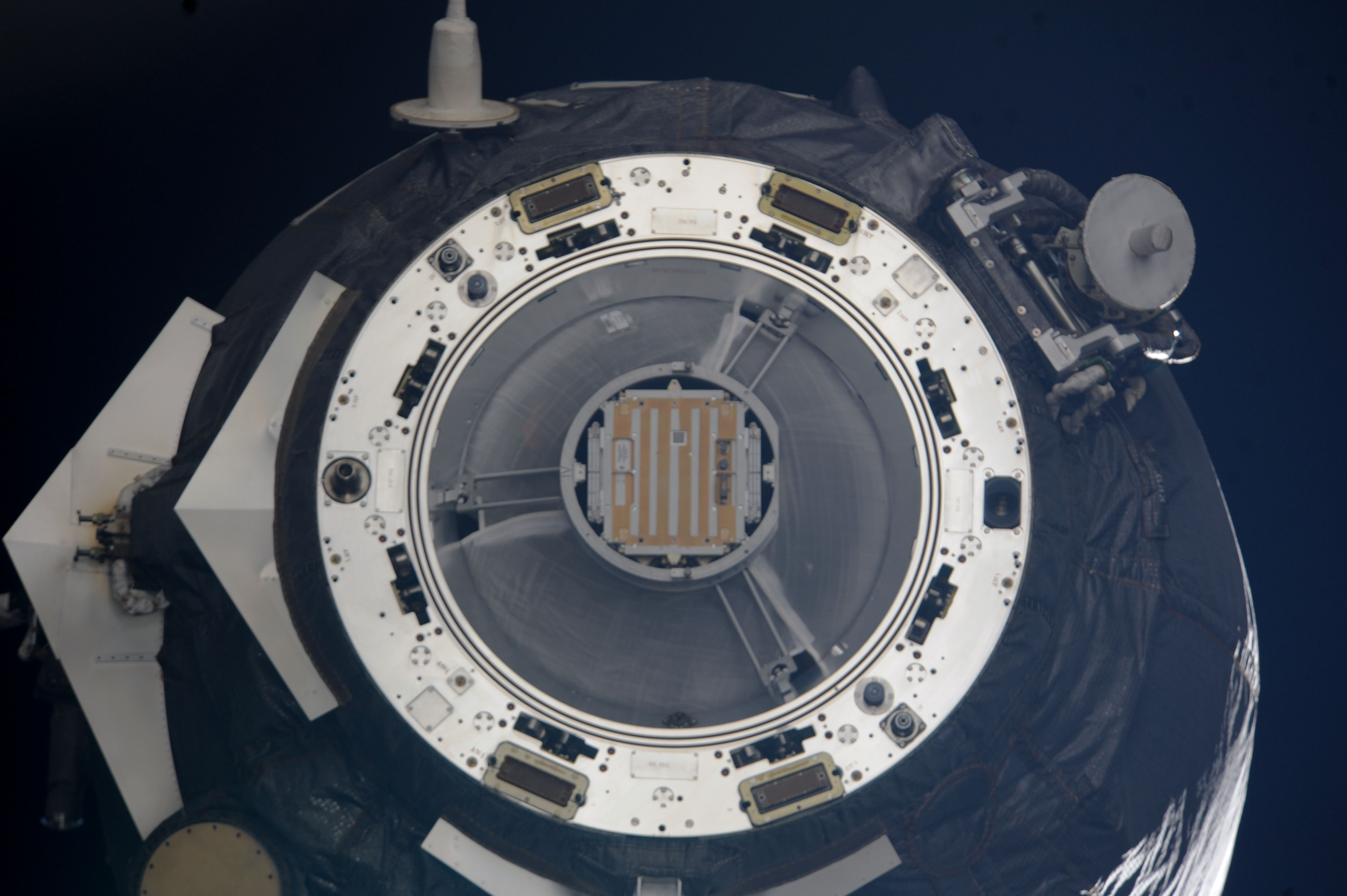 The unpiloted ISS Progress 45 supply vehicle departs from the International Space Station at 5:10 p.m. (EST) on Jan. 23, 2012. Filled with trash and discarded items, Progress 45 was later deorbited, subsequently burning up in Earth's atmosphere. The departure of Progress 45 clears the way for the next unpiloted supply ship, Progress 46, which is set to launch at 6:06 p.m. (EST) on Jan. 25 (5:06 a.m. Baikonur time Jan. 26) from the Baikonur Cosmodrome in Kazakhstan bringing 2.9 tons of food, fuel and supplies for the residents of the space station.